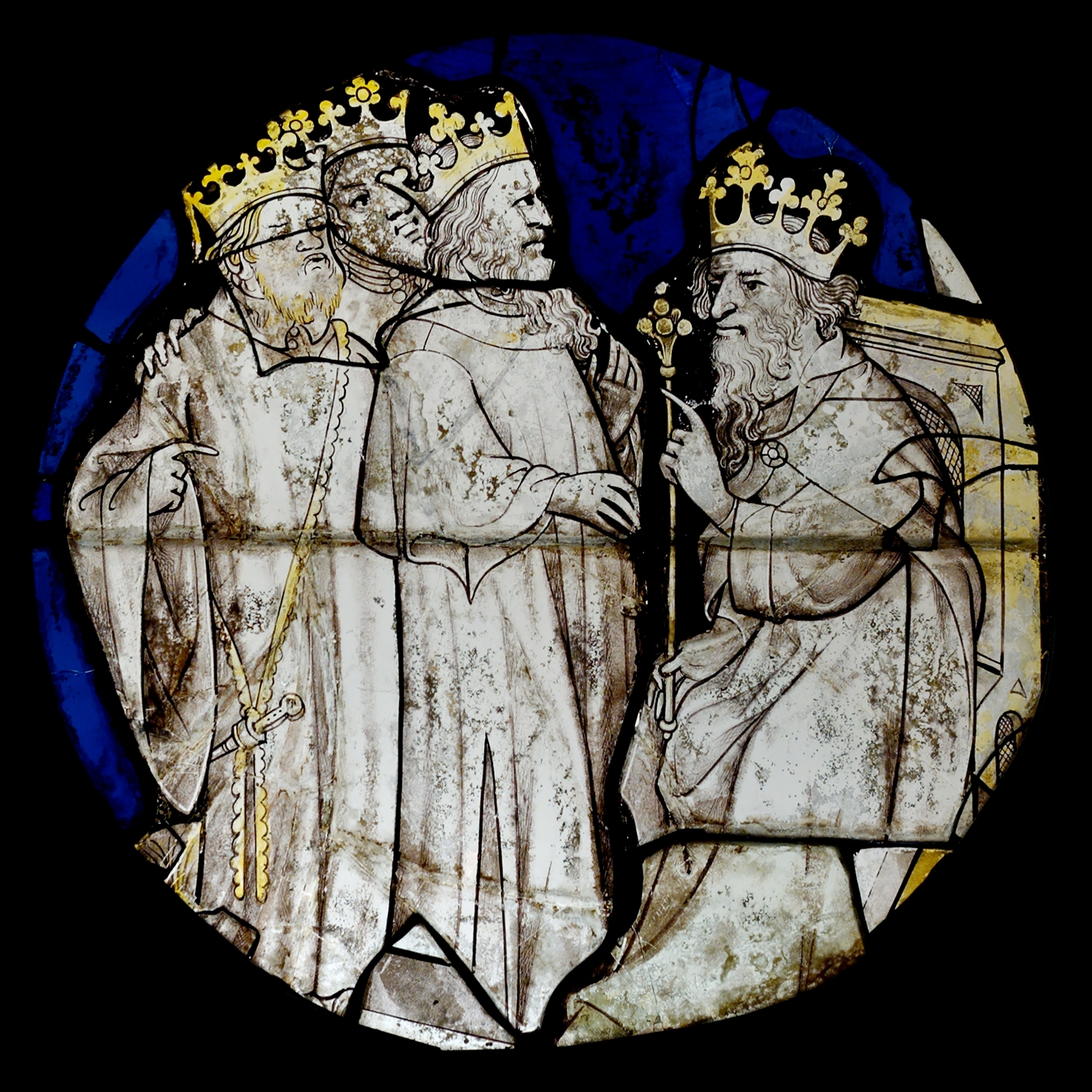 The three Magi before Herod, France, early 15th century. Stained glass: colored glass, grisaille; lead. Restored by F. Pivet, 1999.